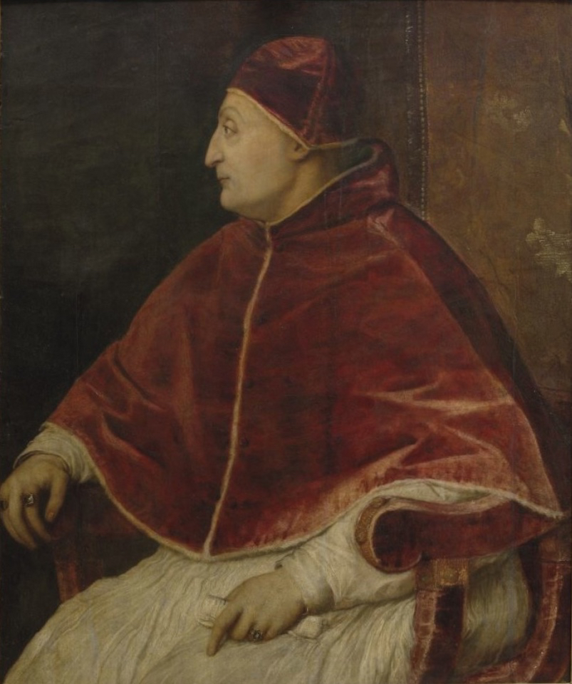 A portrait of Renaissance pope Sixtus IV.